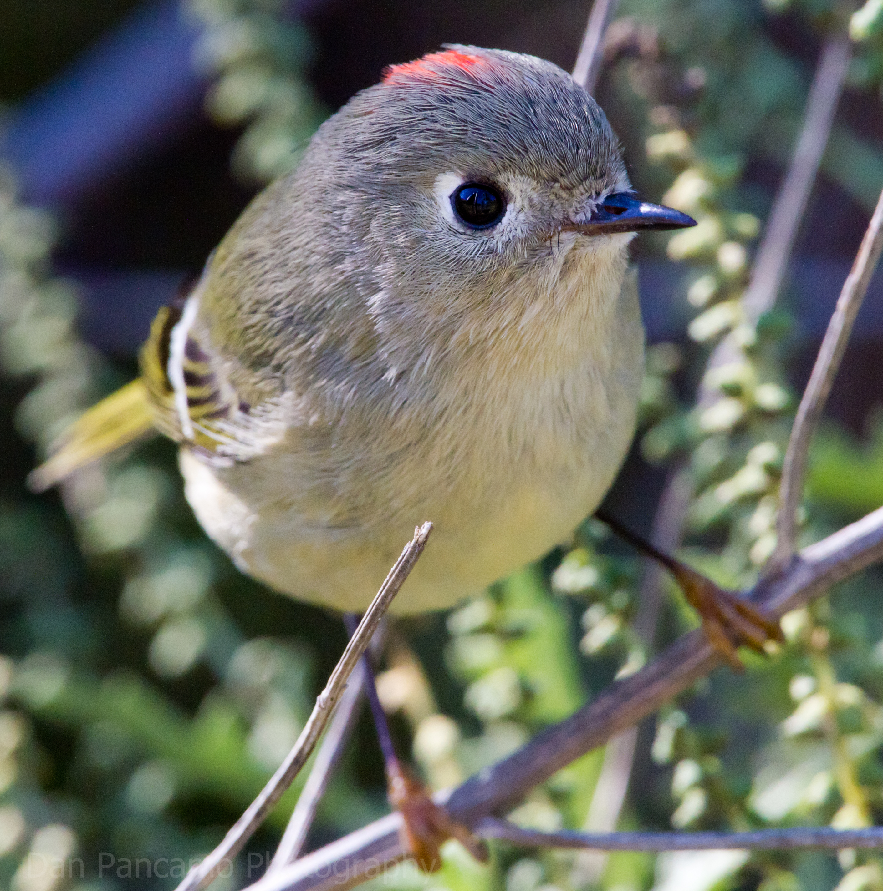 Ruby-crowned Kinglet in Quintana, TX